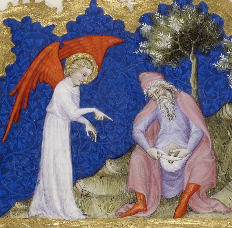 Circumcision of Abraham, from the Bible of Jean de Sy, ca. 1355-1357